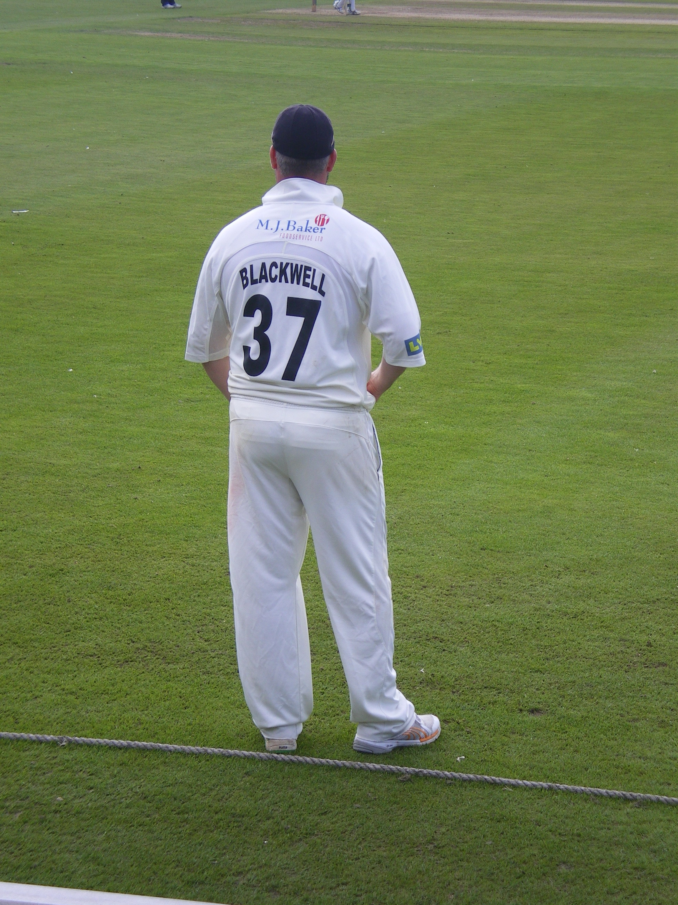 Ian Blackwell playing for Somerset CCC at North Marine Road